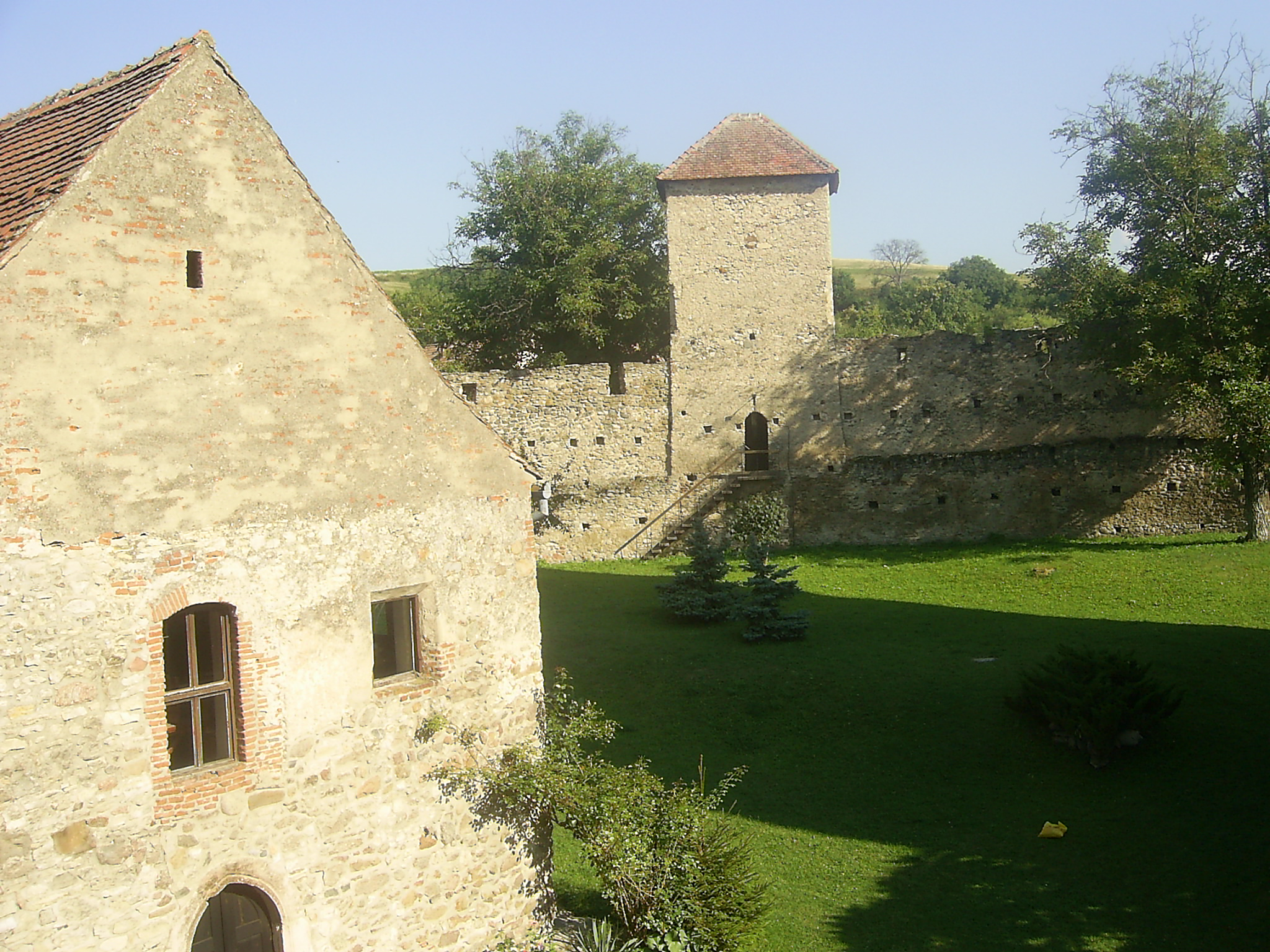 Main court of the castle in Câlnic, Romania 03